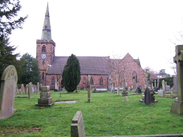 The Holy Ascension Church, Upton-by-Chester The corner stone was laid at 2 O'Clock, 10th. March in the year 1853, by the Marquis of Westminster. It was consecrated by the Lord Bishop of Chester on Wed., 31st. May 1854